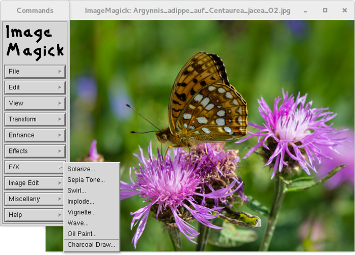 Screenshot of ImageMagick's display command menu